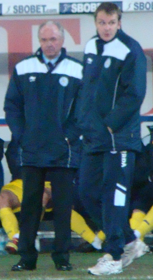 22/02/11 Cardiff V Leicester, Championship, Cardiff City Stadium, Cardiff, Wales